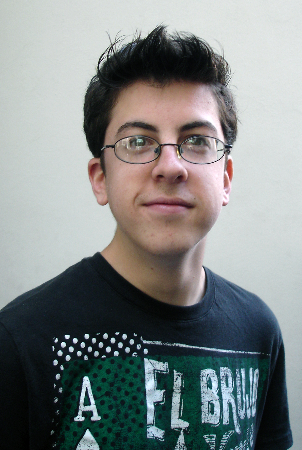 Christopher Mintz-Plasse, american actor (MACBA, Barcelona).